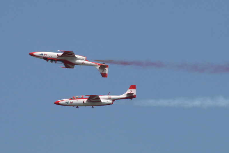 PZL TS-11 Iskra, Polish jet trainer aircraft. Biało-Czerwone Iskry aerobatic team. Kraków Air Show 2007.